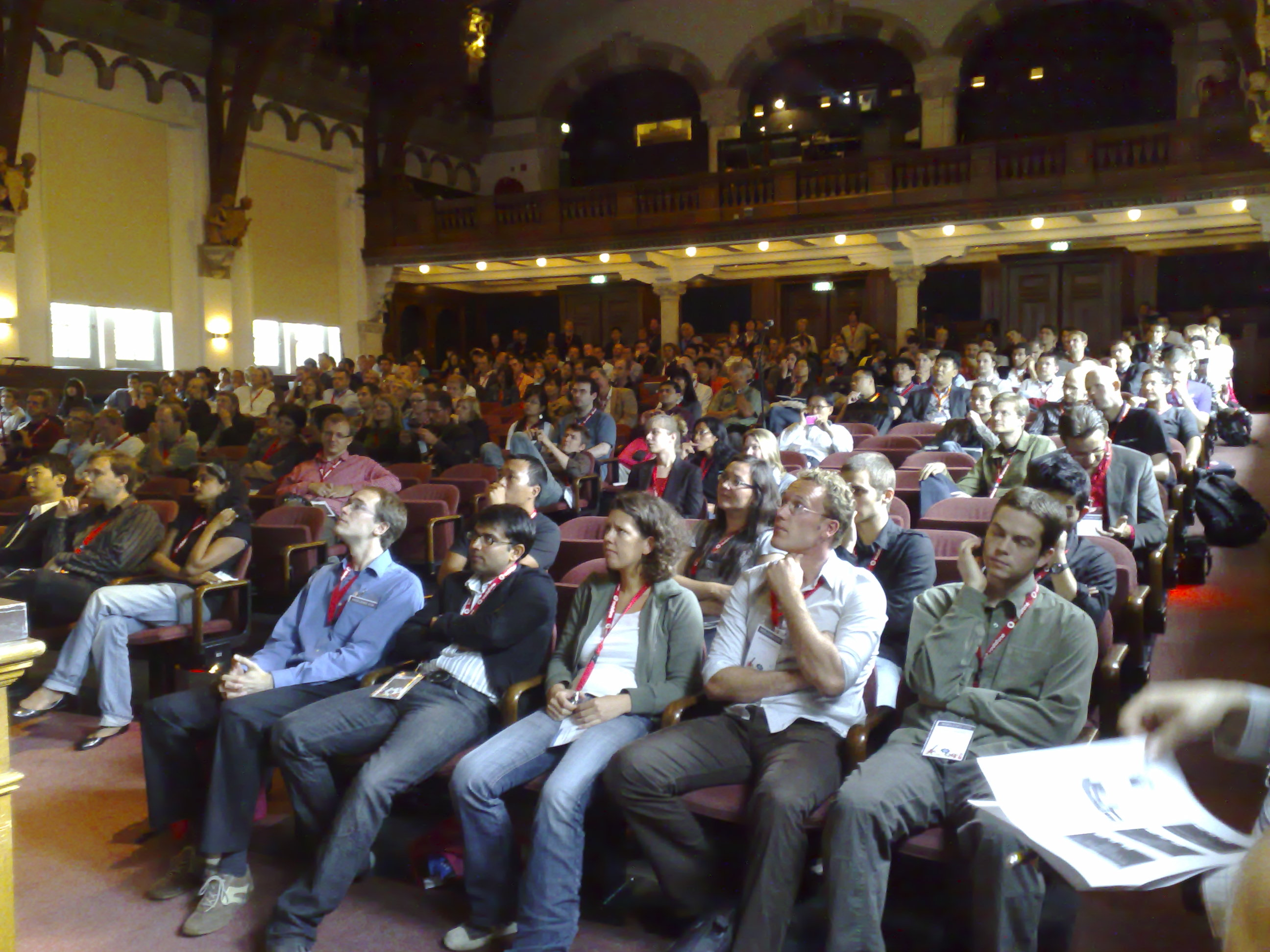 Audience in the main hall of the MobileHCI 2008 conference. Amsterdam.